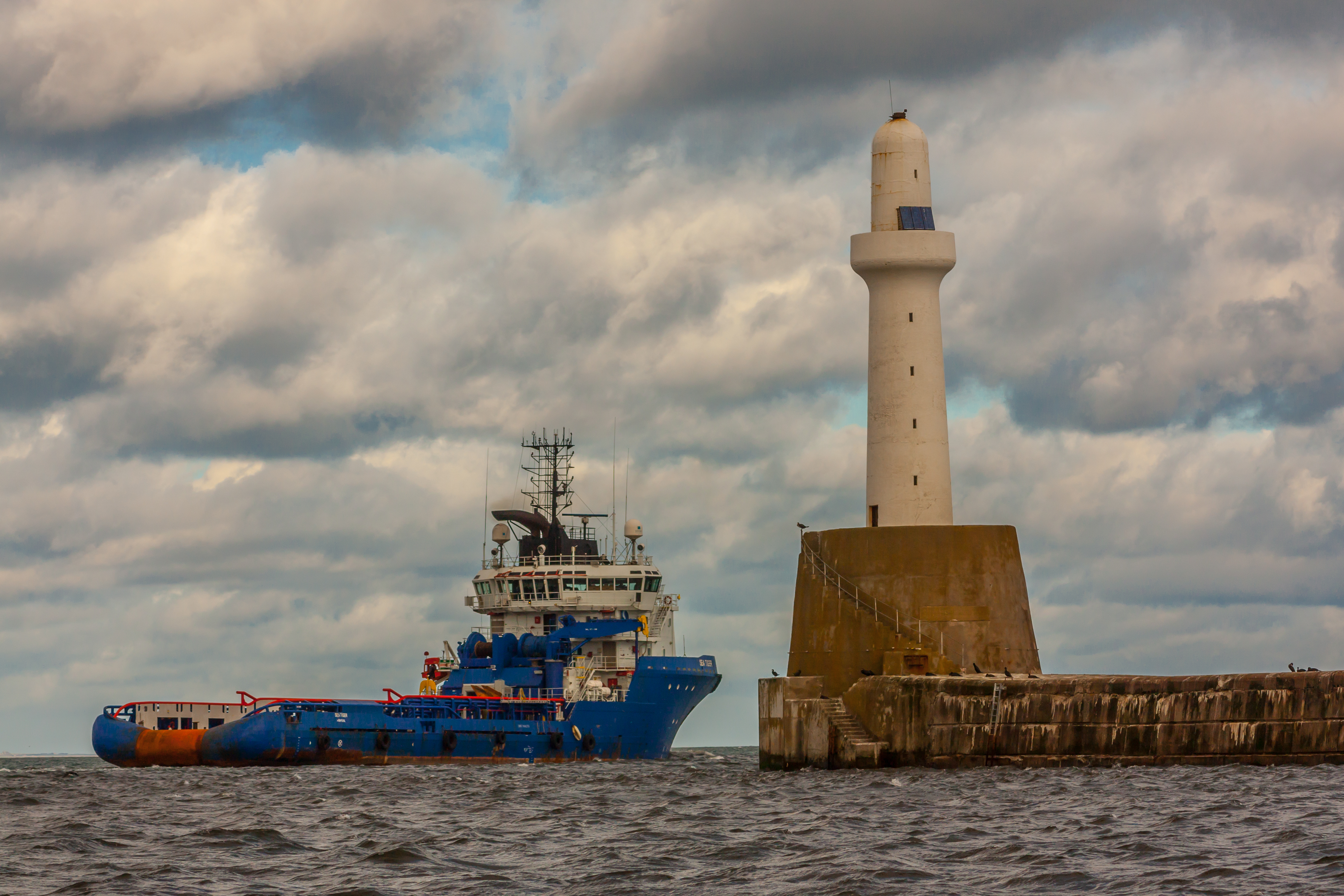 Aberdeen South Breakwater and Light.